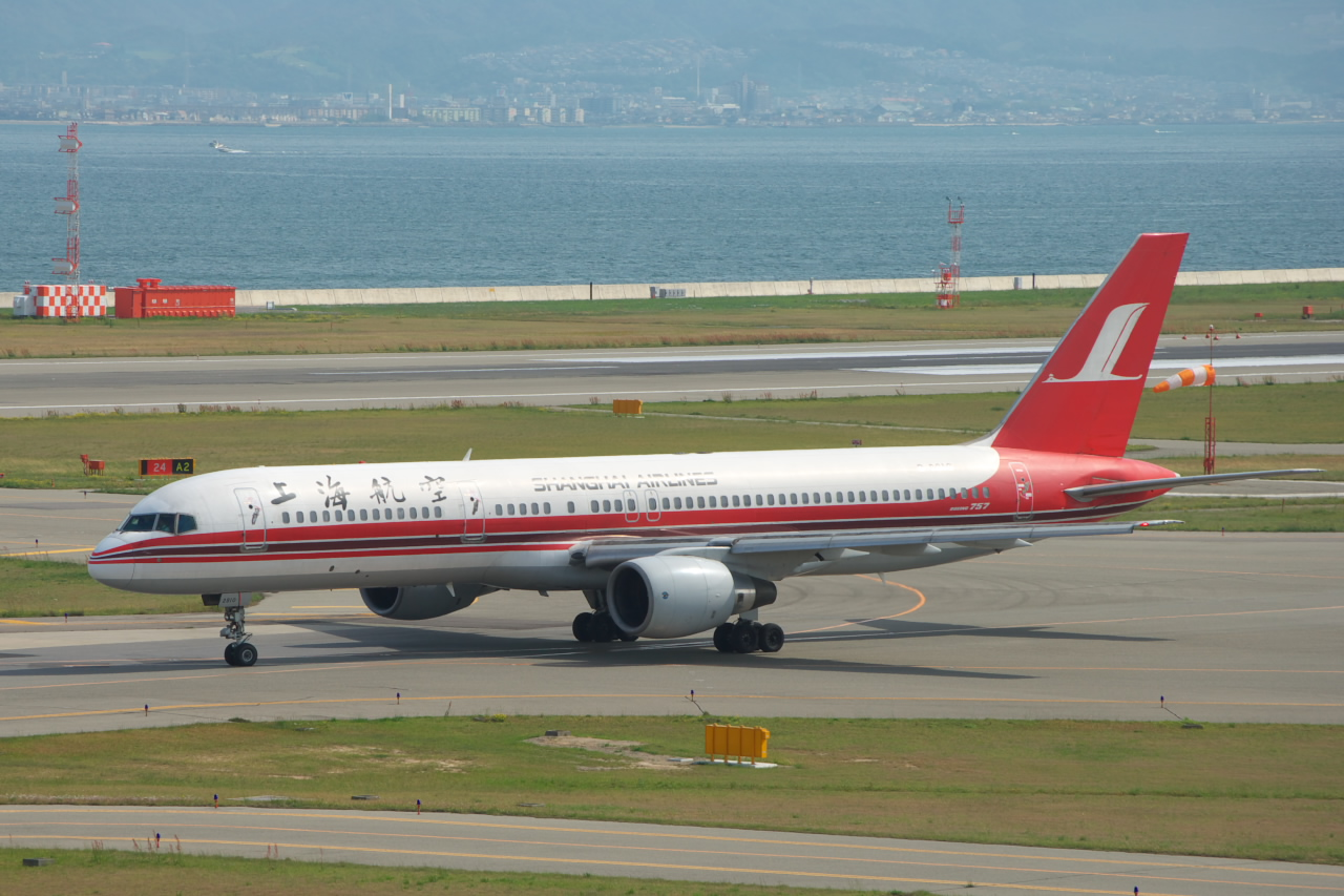 CSH B757-26D(B-2810),flight FM822 for Shanghai is taxing to runway 24 end of Kansai international airport(KIX/RJBB). It taken on the rooftop of skyview in the airport. ??????????skyview??????????????????????822??B757-26D?????? B757?????????B767???????????????????????????????